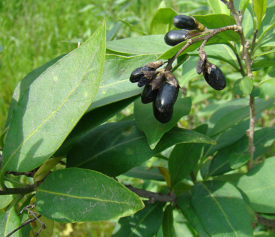 Known as Uvillo in central and northern Chile. In context at